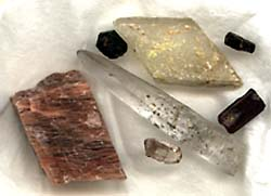 Minerals